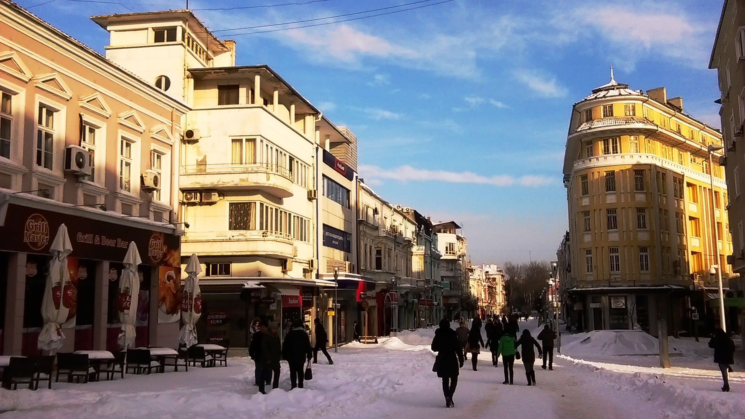 Knyaz Boris I Bld in Varna Winter